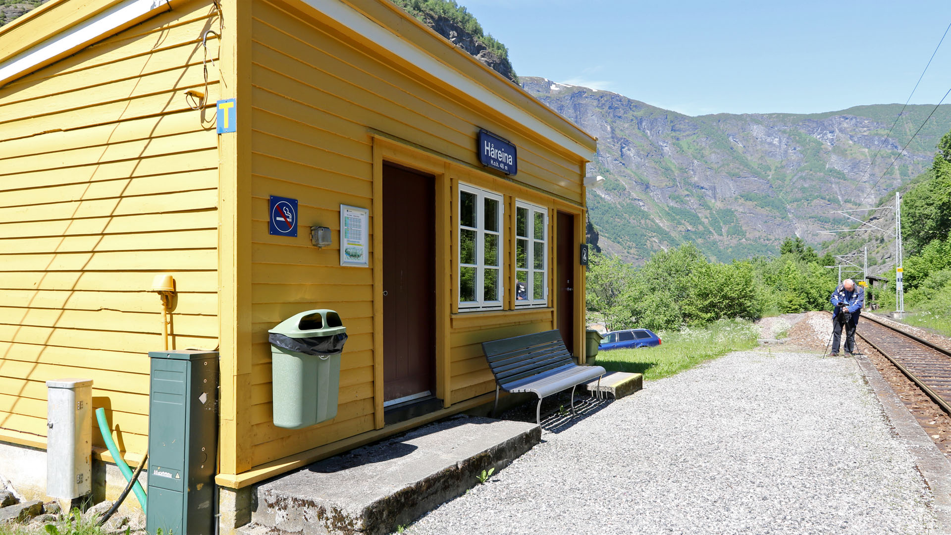 Hareina, railway station